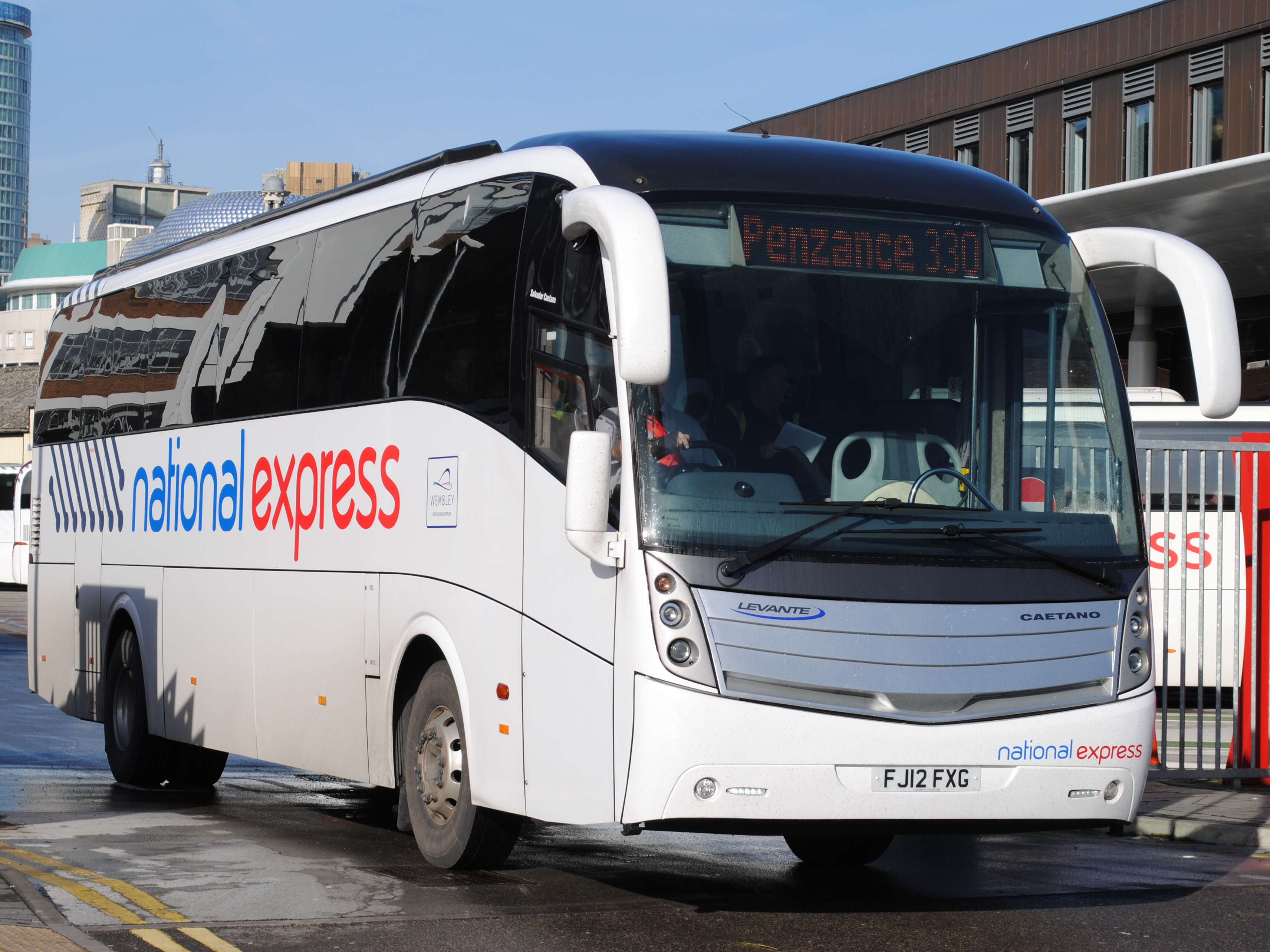 Volvo B9R Caetano Levante. National Express 330 Nottingham - Penzance route seen here in Digbeth Coach, Birmingham